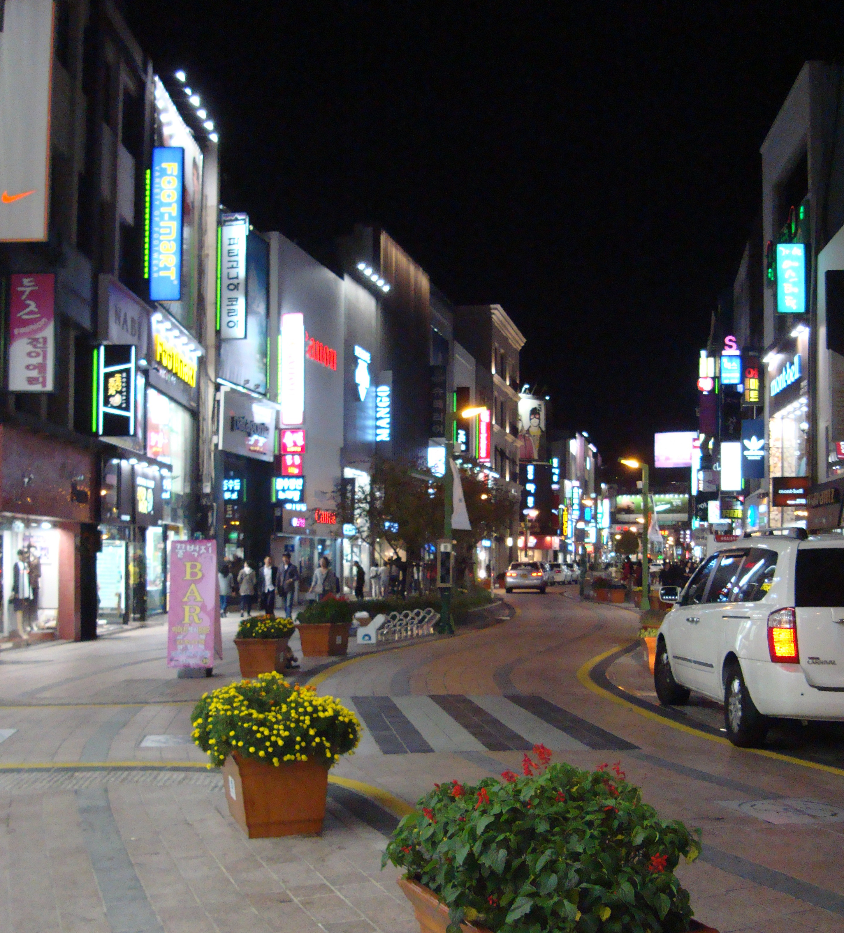 Gwangbok-dong Cultural and Fashion Street in Busan, South Korea. Photograph from Flickr; author _Higher_; license of CC BY 2.0. Edited from the original photograph (lighting, cropping, etc.).